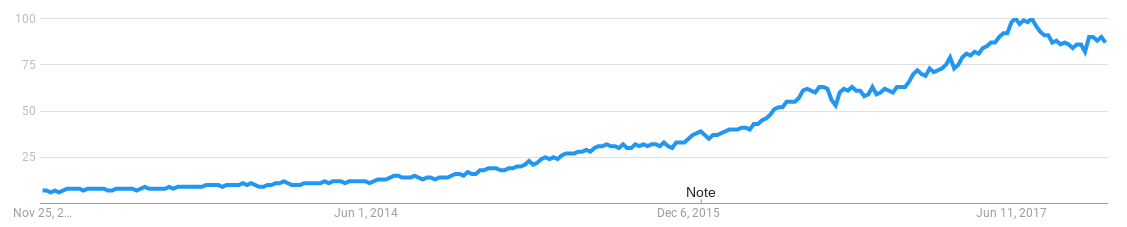 Google Search popularity of Quora over 5 years